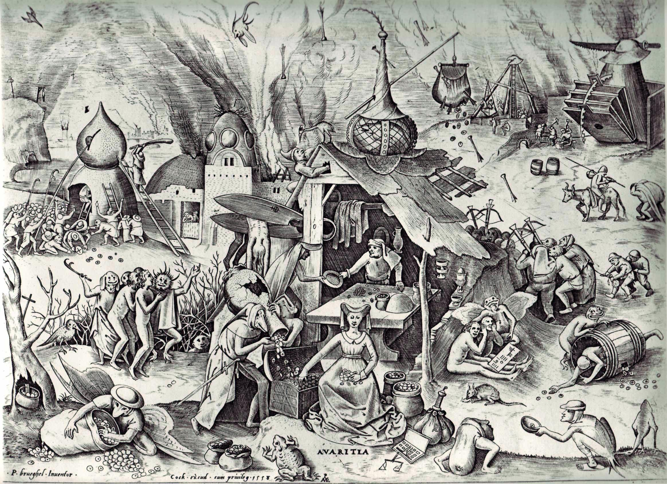 Pieter Bruegel the Elder: The Seven Deadly Sins or the Seven Vices - Avarice